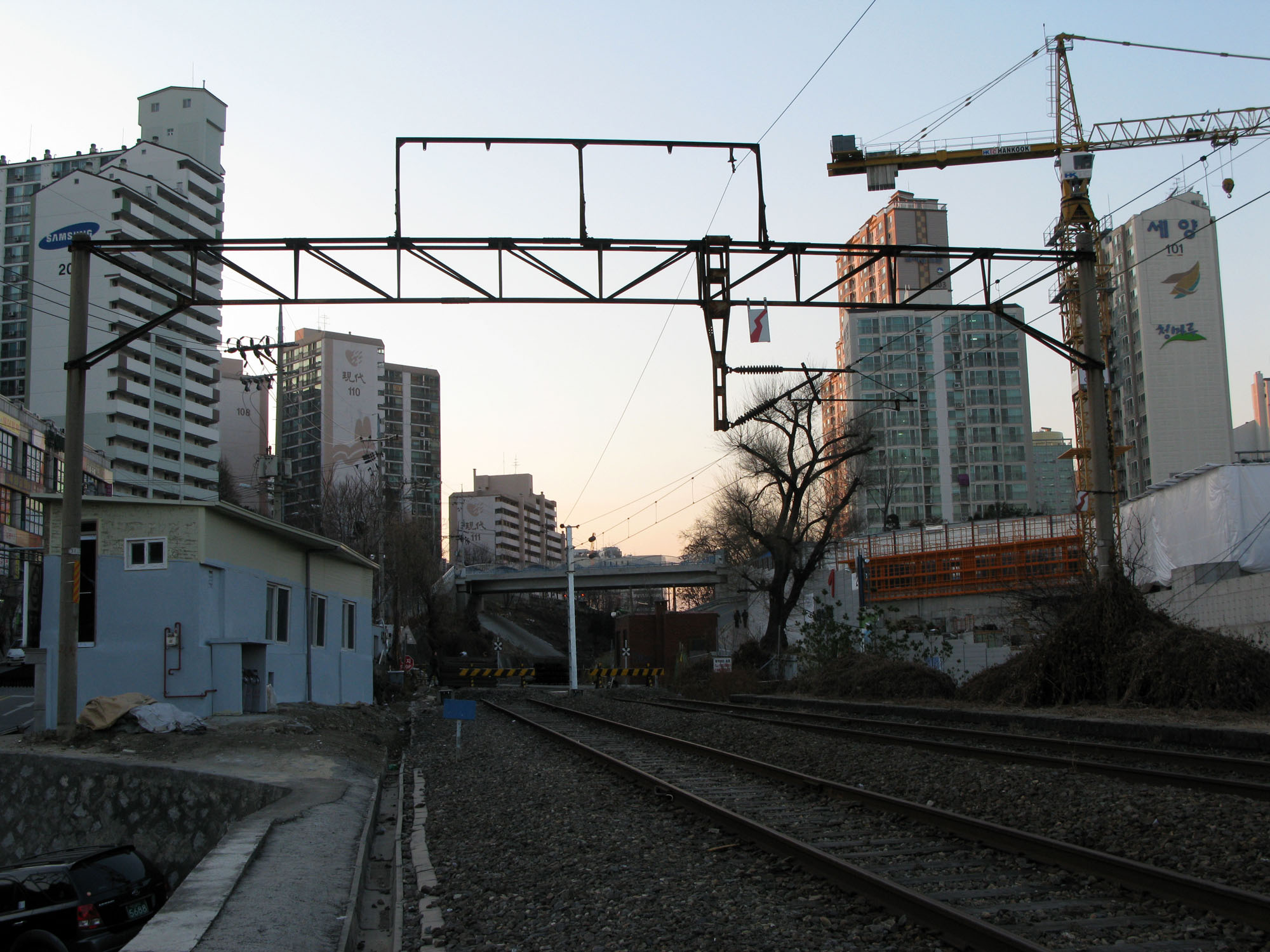 Yongsan Line Terminal Point